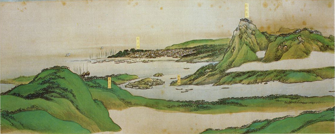 Boating on Kumano ;1 of 2 scrolls,colors on paper 熊野舟行図巻 上巻